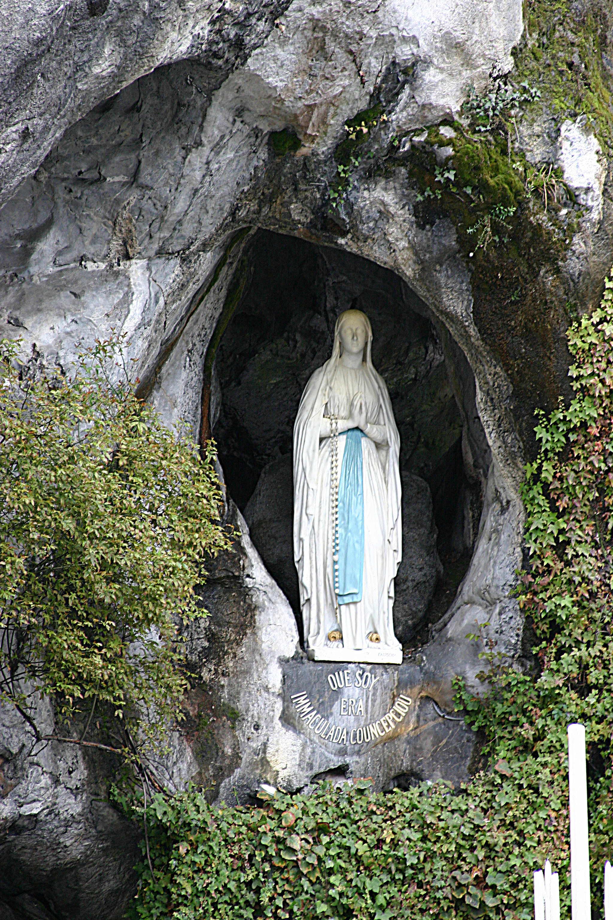 Grotto of Lourdes